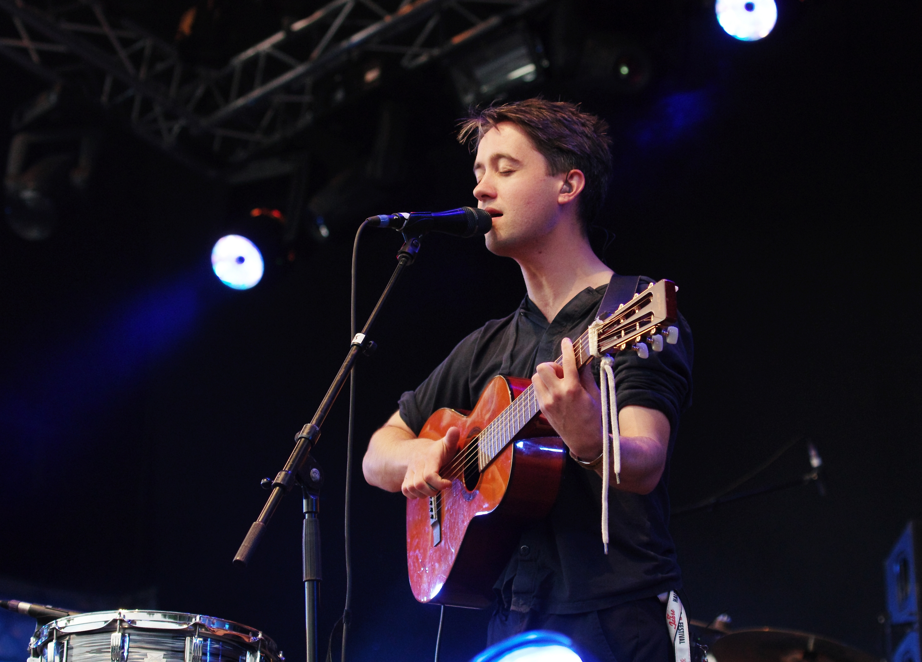 Indie folk rock band Villagers from Ireland at Haldern Pop Festival 2013. Members: Conor J. O'Brien - vocals, acoustic guitar; Tommy McLaughlin - electric guitar, mandolin, backing vocals; Daniel Snow - bass, guitar: Cormac Curran - keyboards, backing vocals; James Byrne - drums